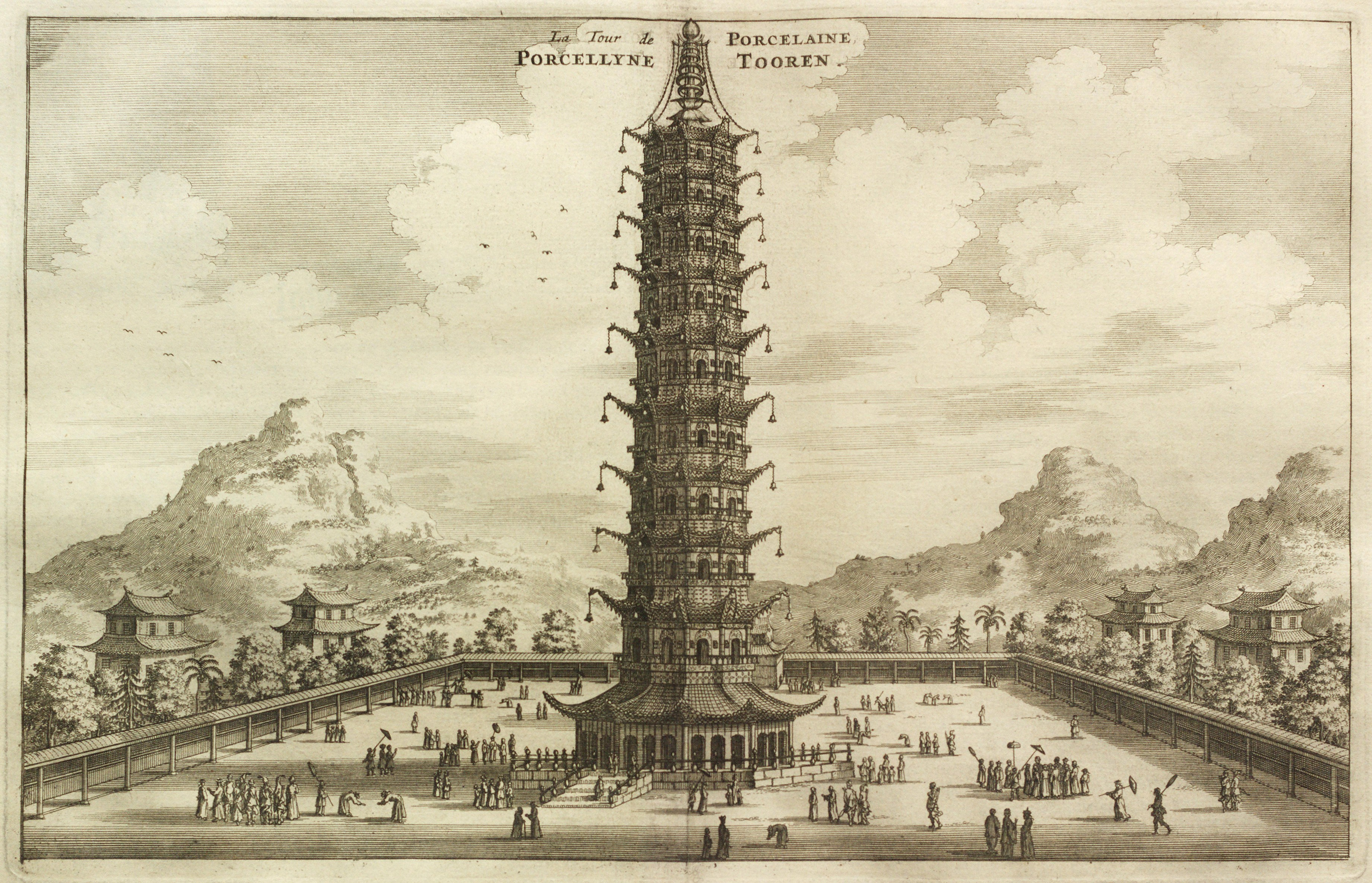 Illustration in the 1665 edition of Johan Nieuhof's Het Gezandtschap der Neêrlandtsche Oost-Indische Compagnie